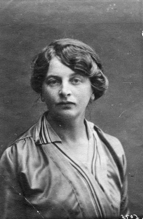 Inessa Armand